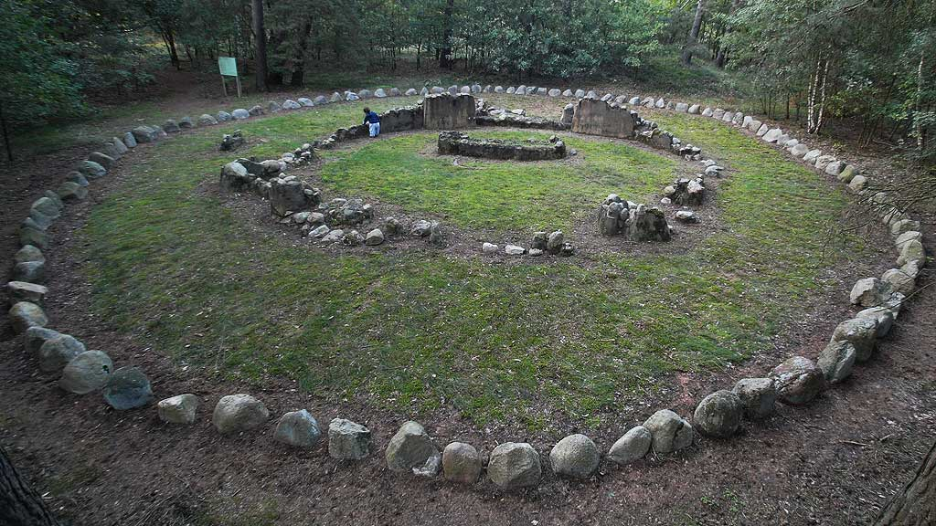 Gräberfeld in der Addenstorfer Heide